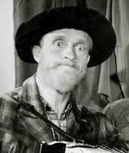 Finnish accordionist and actor Esa Pakarinen.